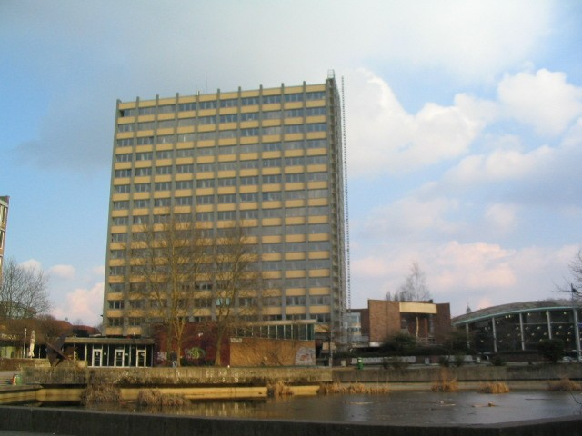 Tower of Philosophy and Philology of the University of Hamburg in Germany.